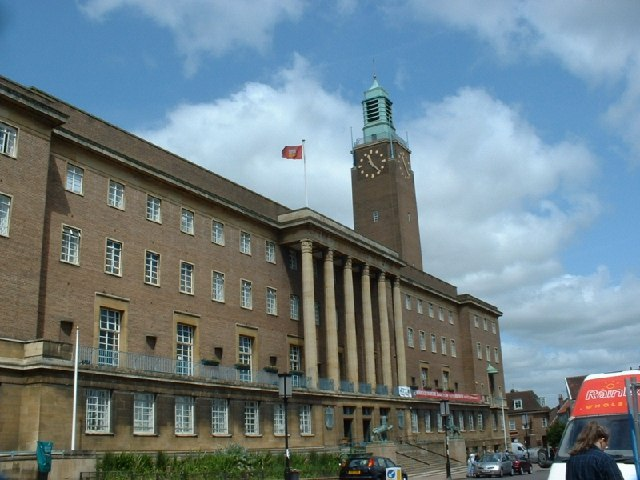 Norwich City Hall. Norwich's imposing City Hall, off the Market Square.